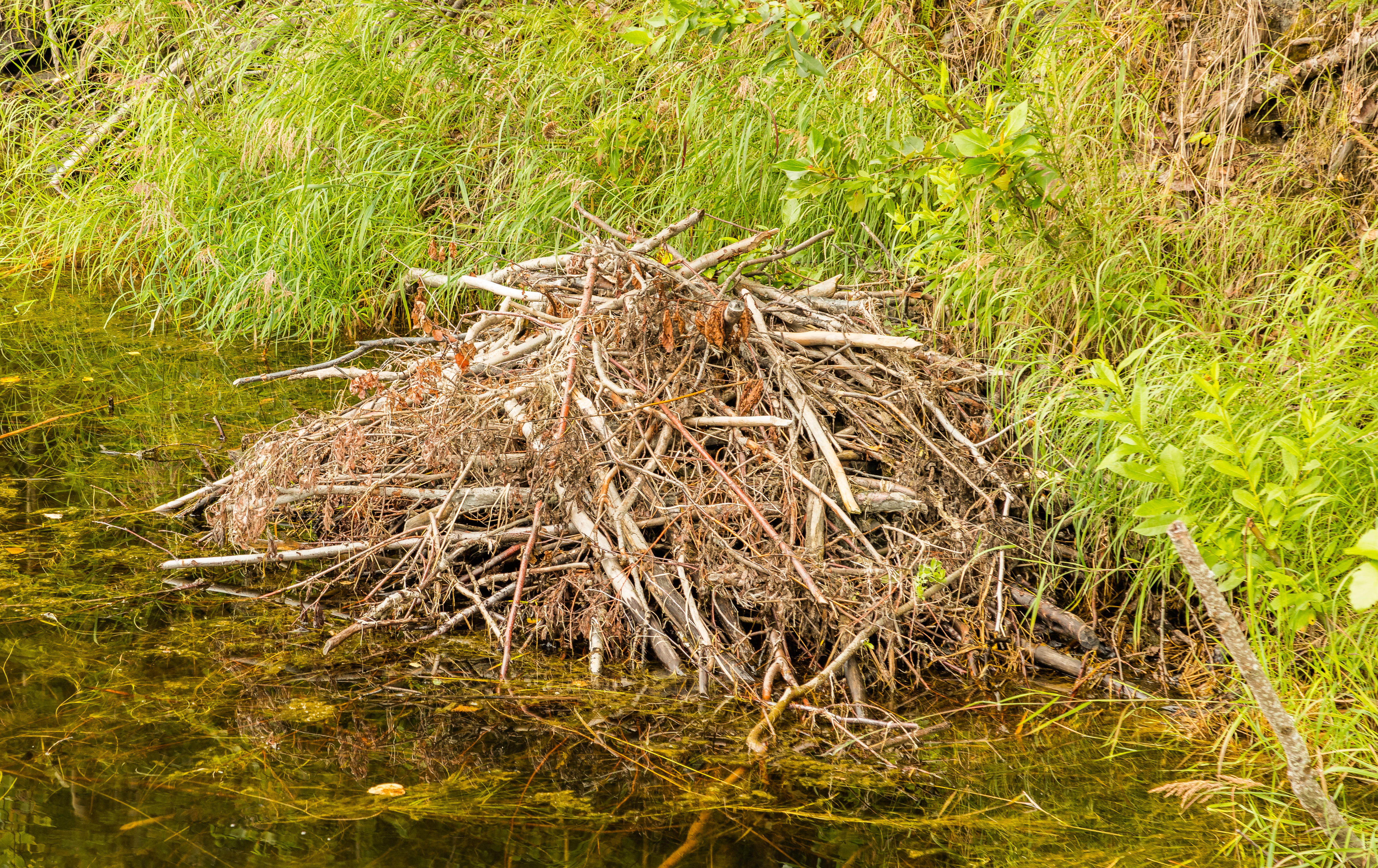 Beaver lodge, Palmer, Alaska, United States